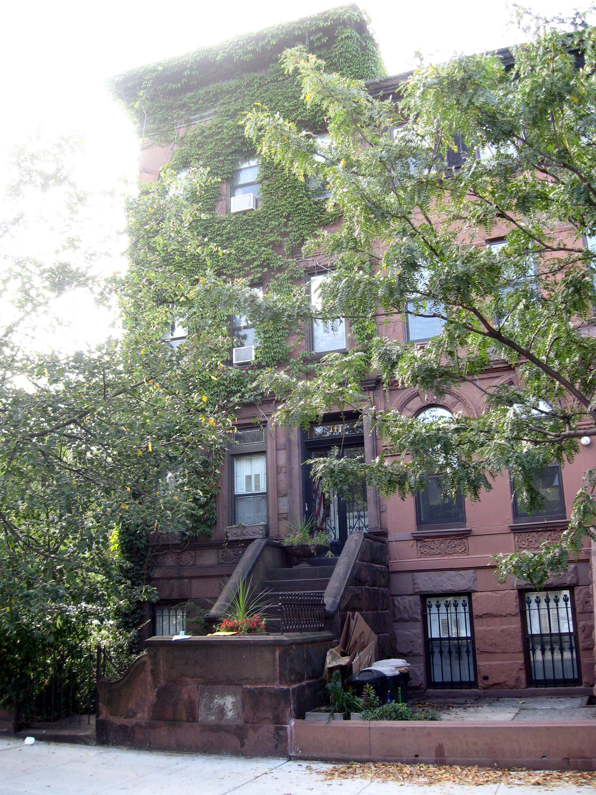 Looking southwest and up at Kurdish Heritage Foundation of America at 144 Underhill Avenue on a mostly sunny early afternoon for WTM Goal #J14. This photo is of Wikis Take Manhattan goal code J14, Kurdish Heritage Foundation of America.